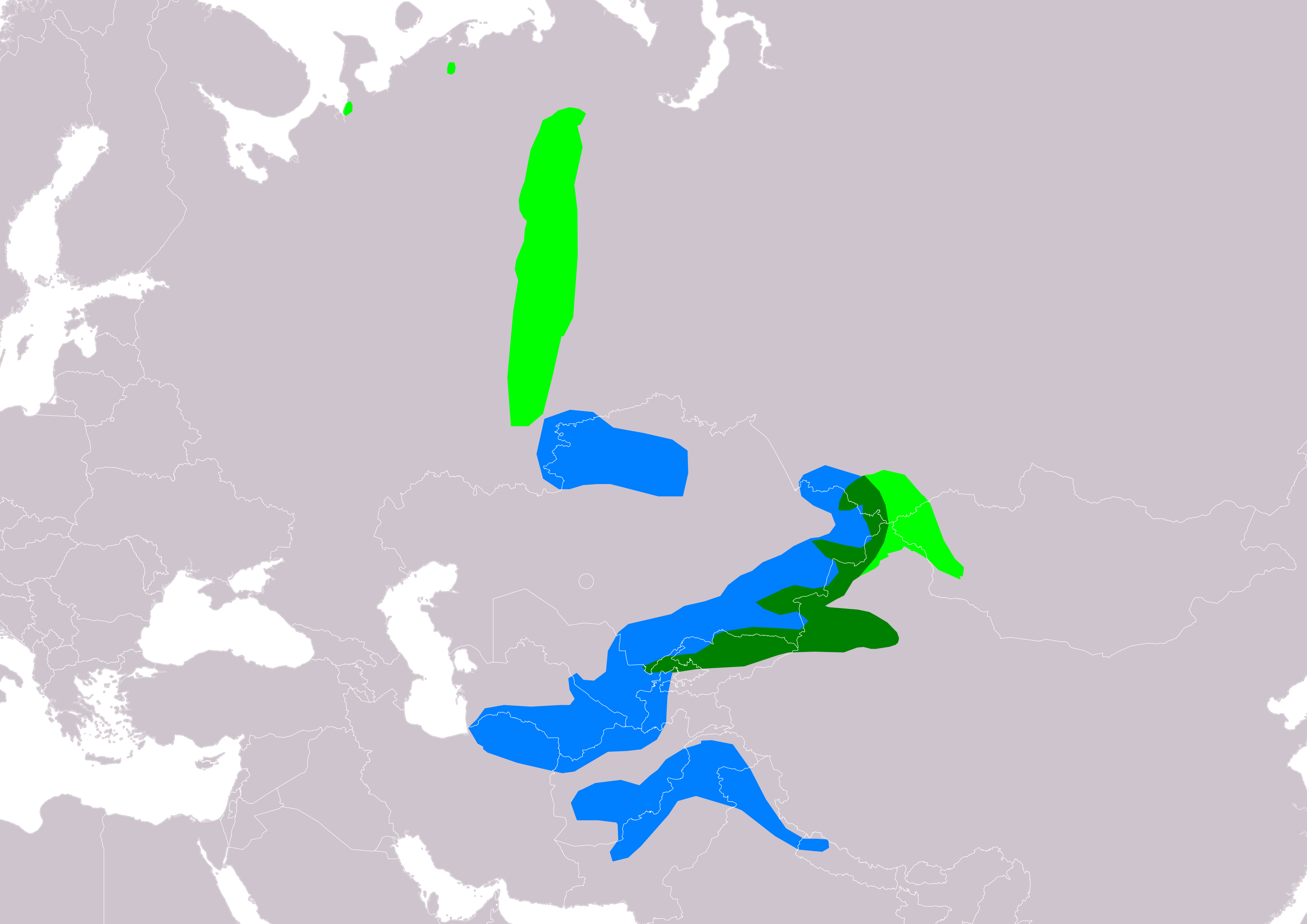 Distribution map of black-throated accentor (Prunella atrogularis) according to IUCN version 2020.1 (compiled by: BirdLife International and Handbook of the Birds of the World (2016) 2016.); key: Legend: Extant, breeding (#00FF00), Extant, resident (#008000), Extant, non-breeding (#007FFF)